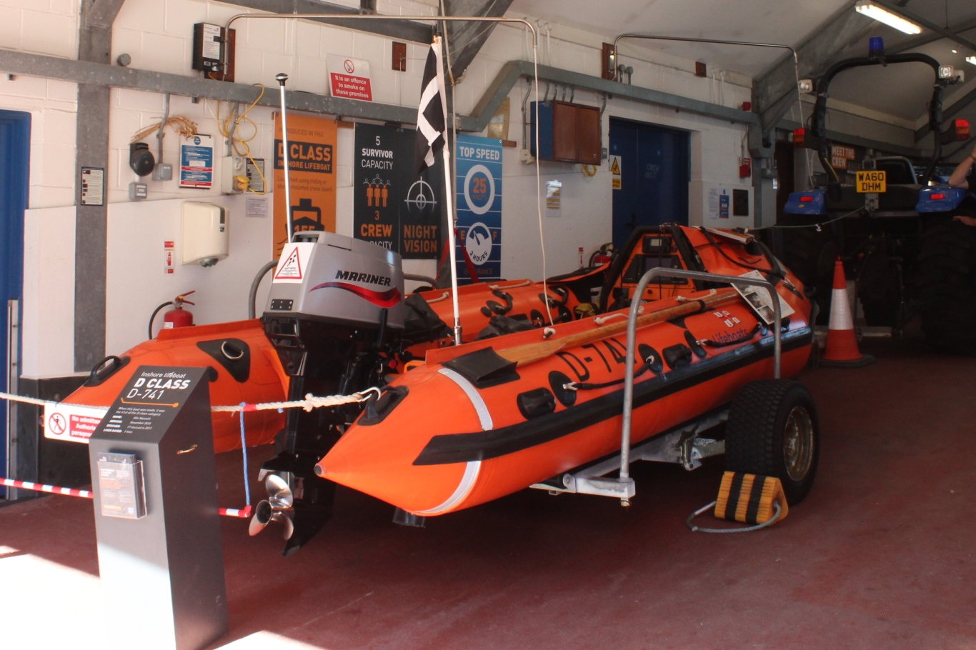 Looe's D-class lifeboat Ollie Naismith in its boat house.